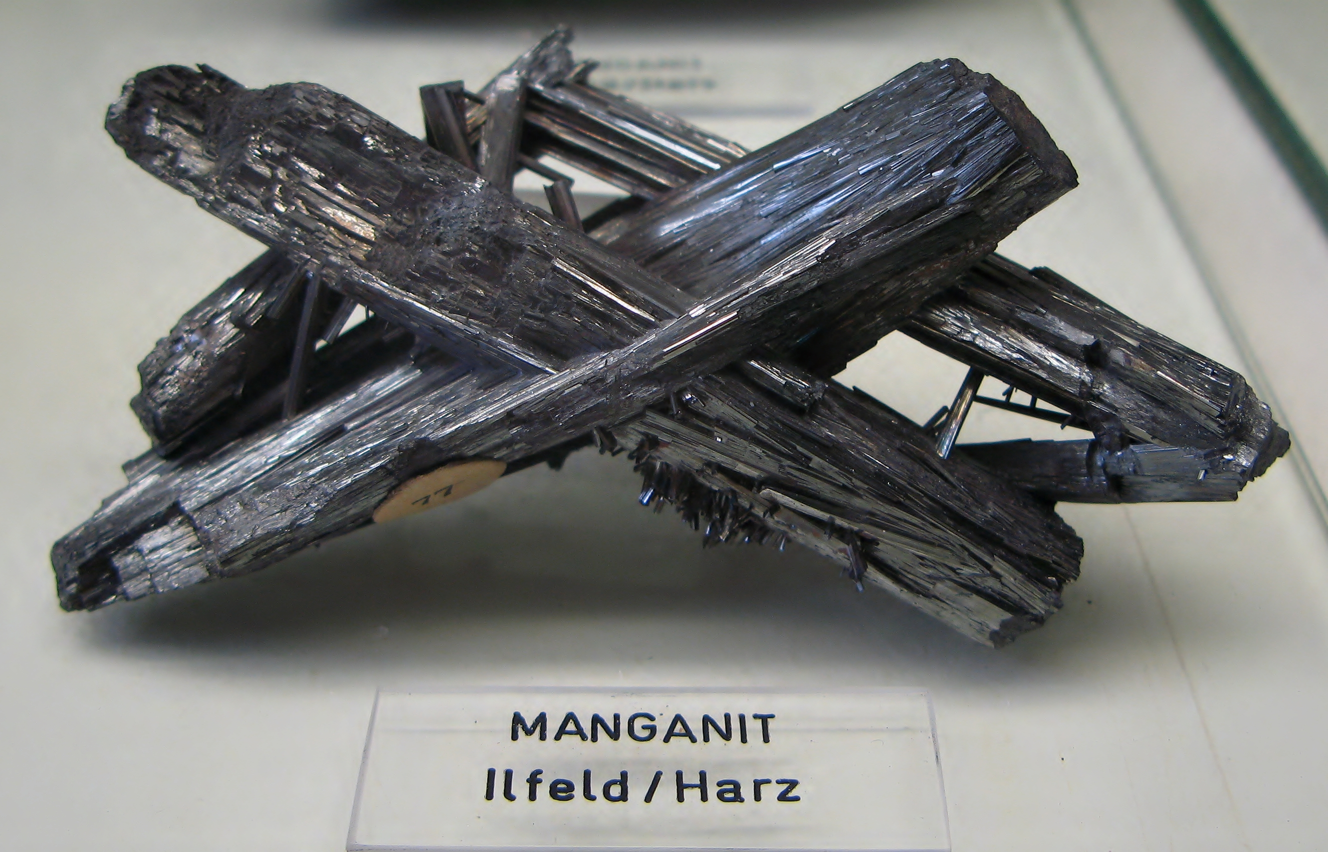 Manganite - Locality: Ilfeld, Harz, Germany - Exposed in the Mineralogical Museum, Bonn, Germany